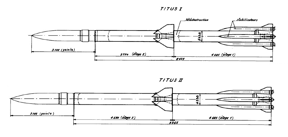 Titus sounding rocket scheme.